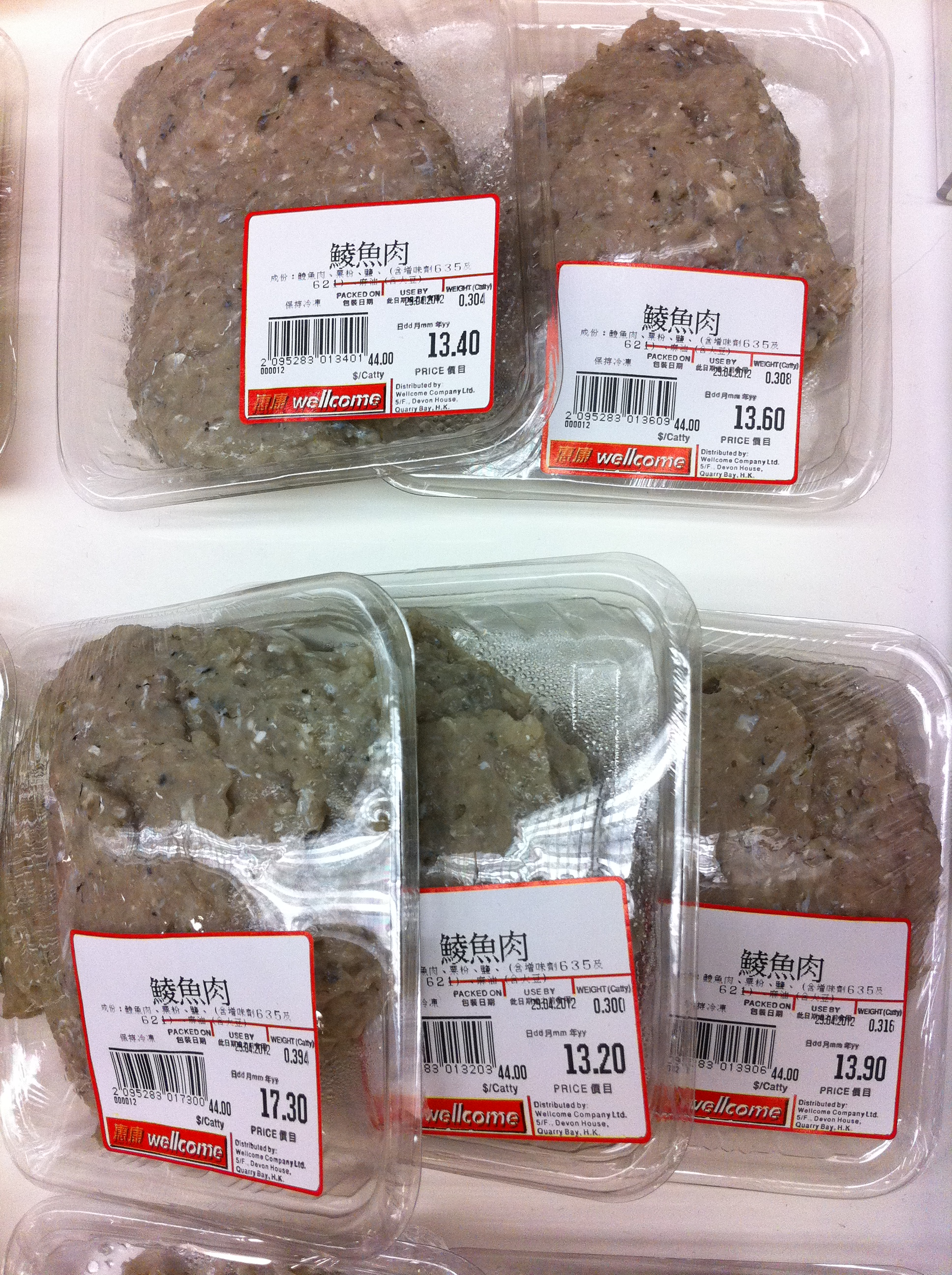 Fish products in Hong Kong - 魚肉